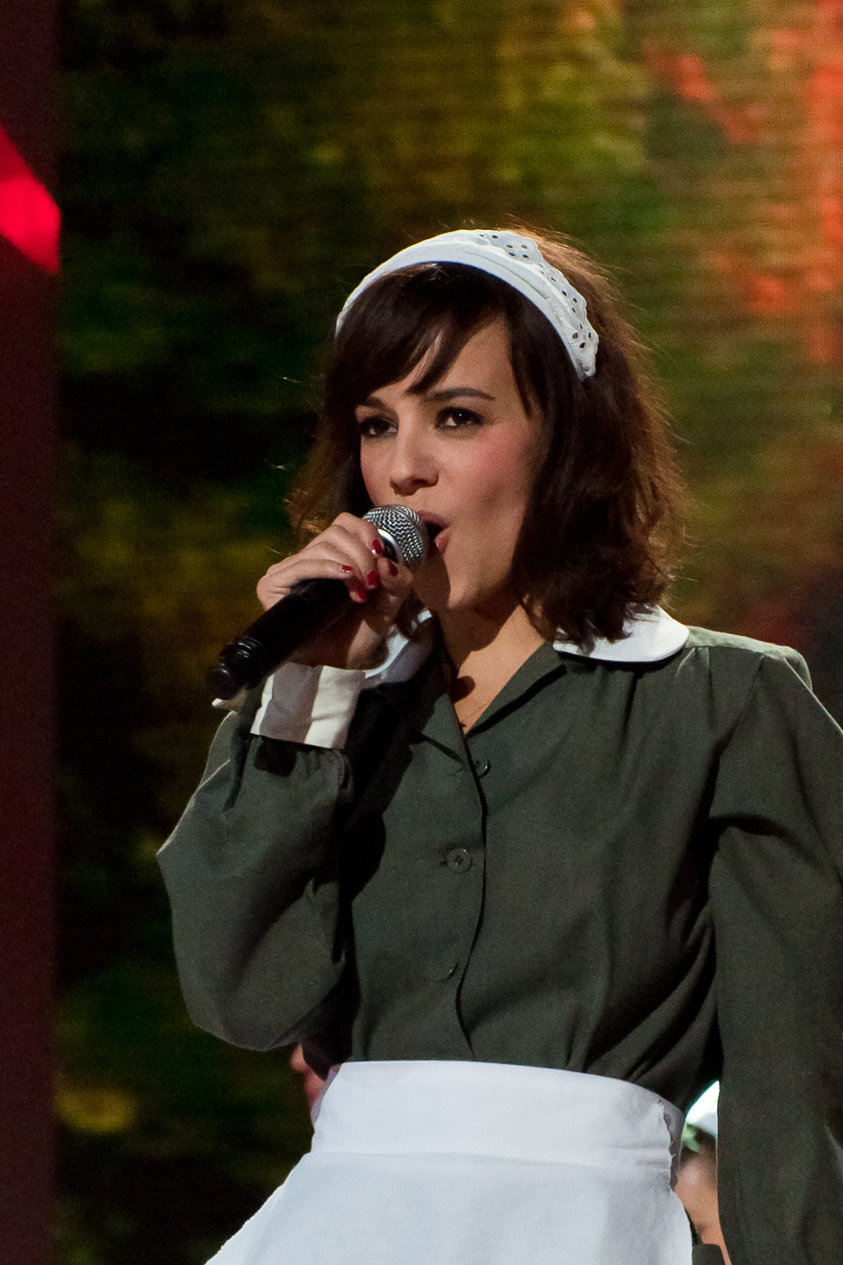 French singer Alizée singing during Les Enfoirés charity concert in Montpellier, France.